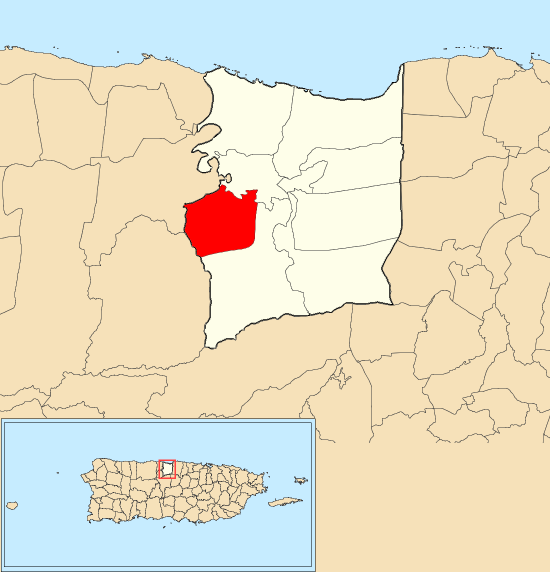 Locator map for barrio in Manatí, Puerto Rico